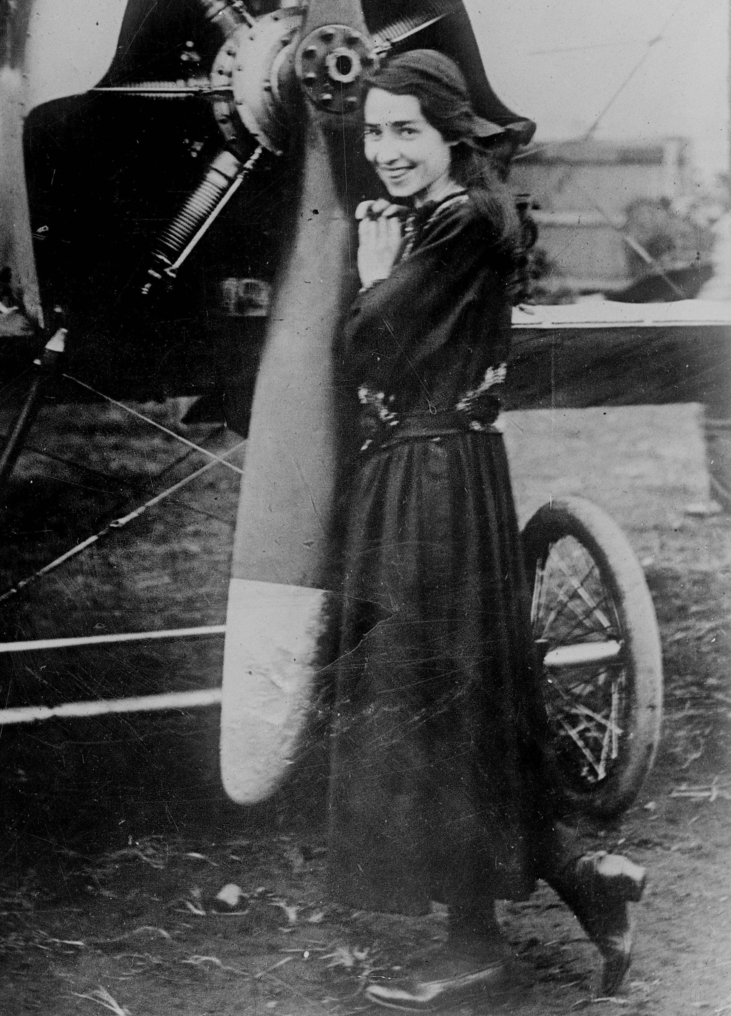 A picture of Katherine Stinson